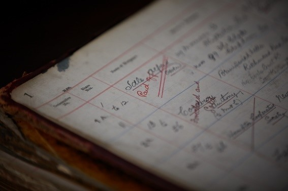 The first mortgage ledge from the Southern Co-operative Permanent Building Society.